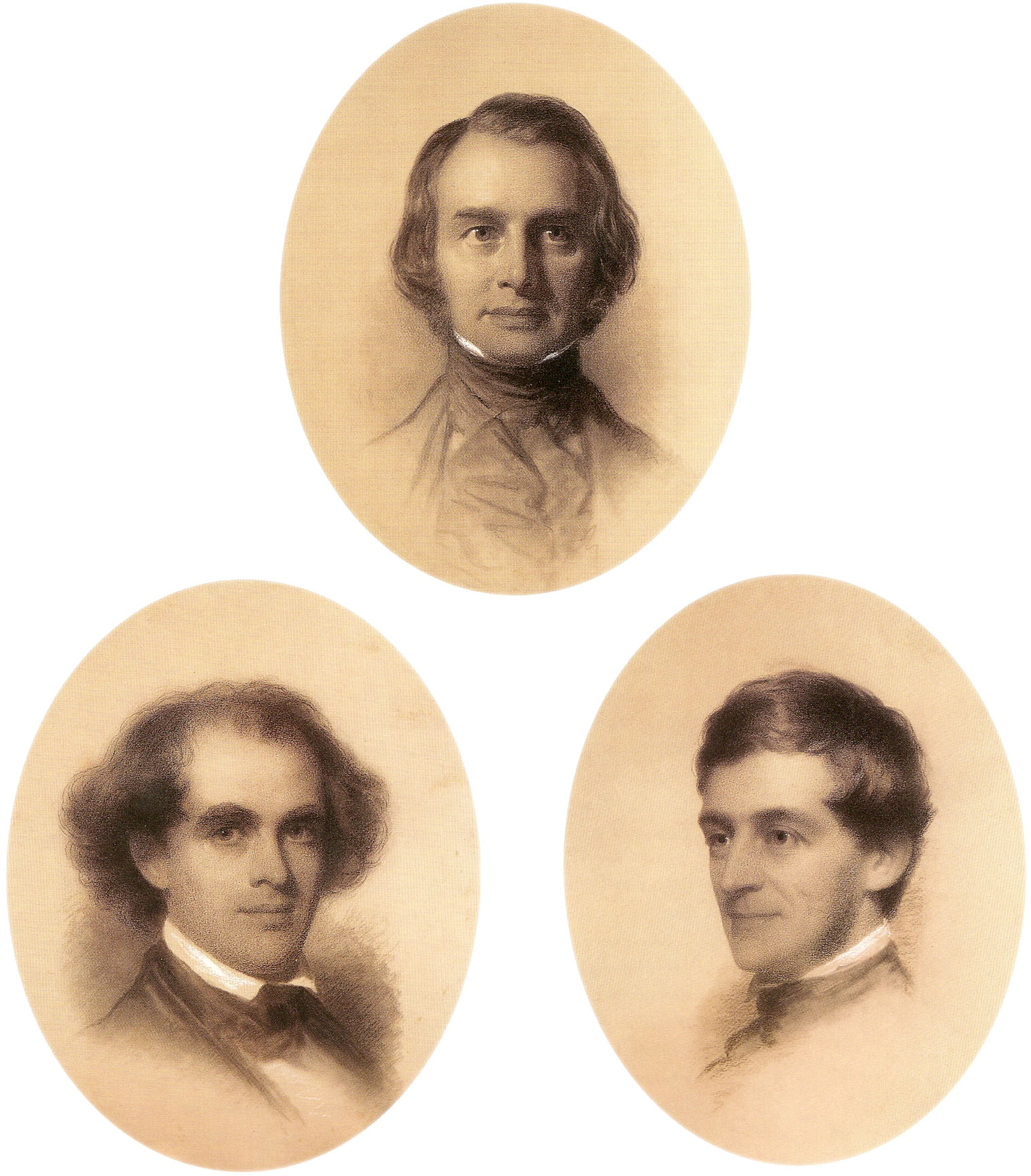 Eastman Johnson - Henry Wadsworth Longfellow - Nathanel Hawthorne - Ralph Waldo Emerson - each Crayon and Chalk on Paper 21 x 19 in. oval - 1846 - Scanned from Eastman Johnson: Painting America - figs 3 4 5 pg14